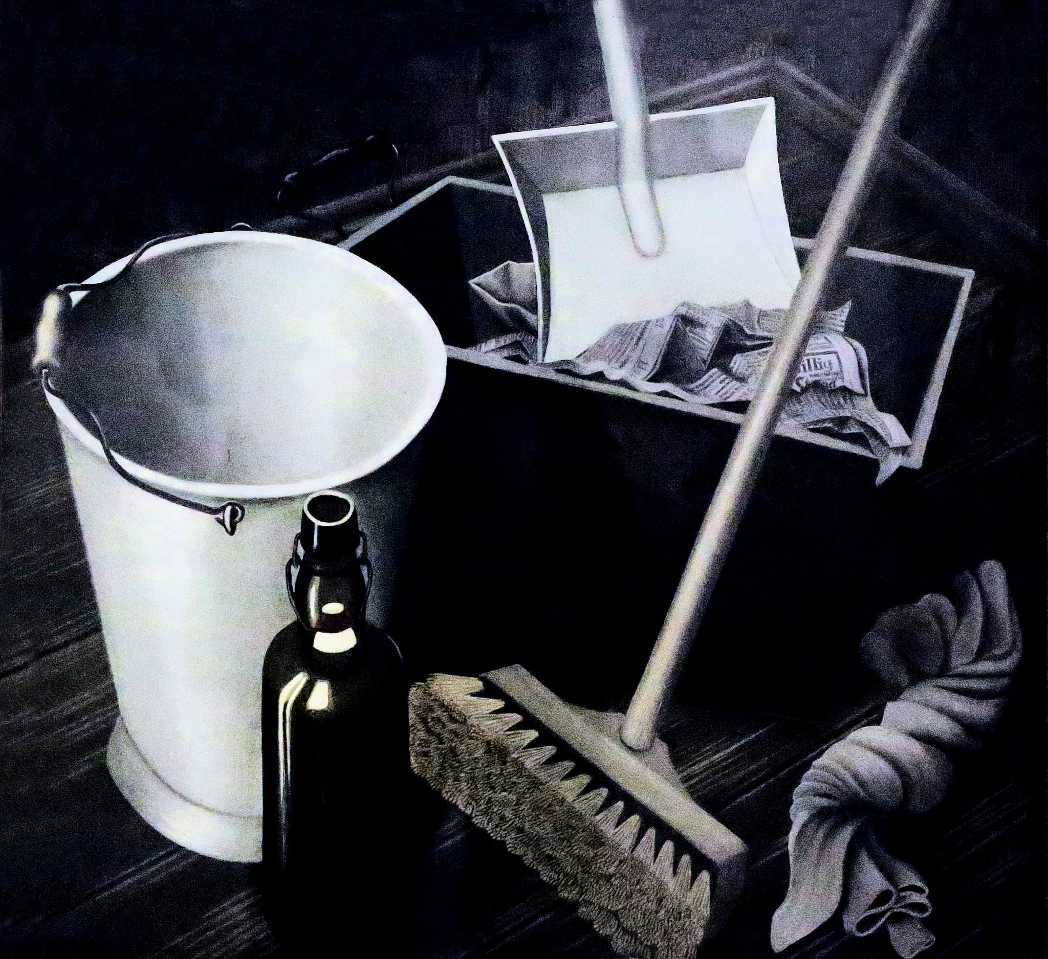 Still Life with Home Appliances, 1928 painted by Hans Mertens, bought by Sprengel Museum in Hannover ...